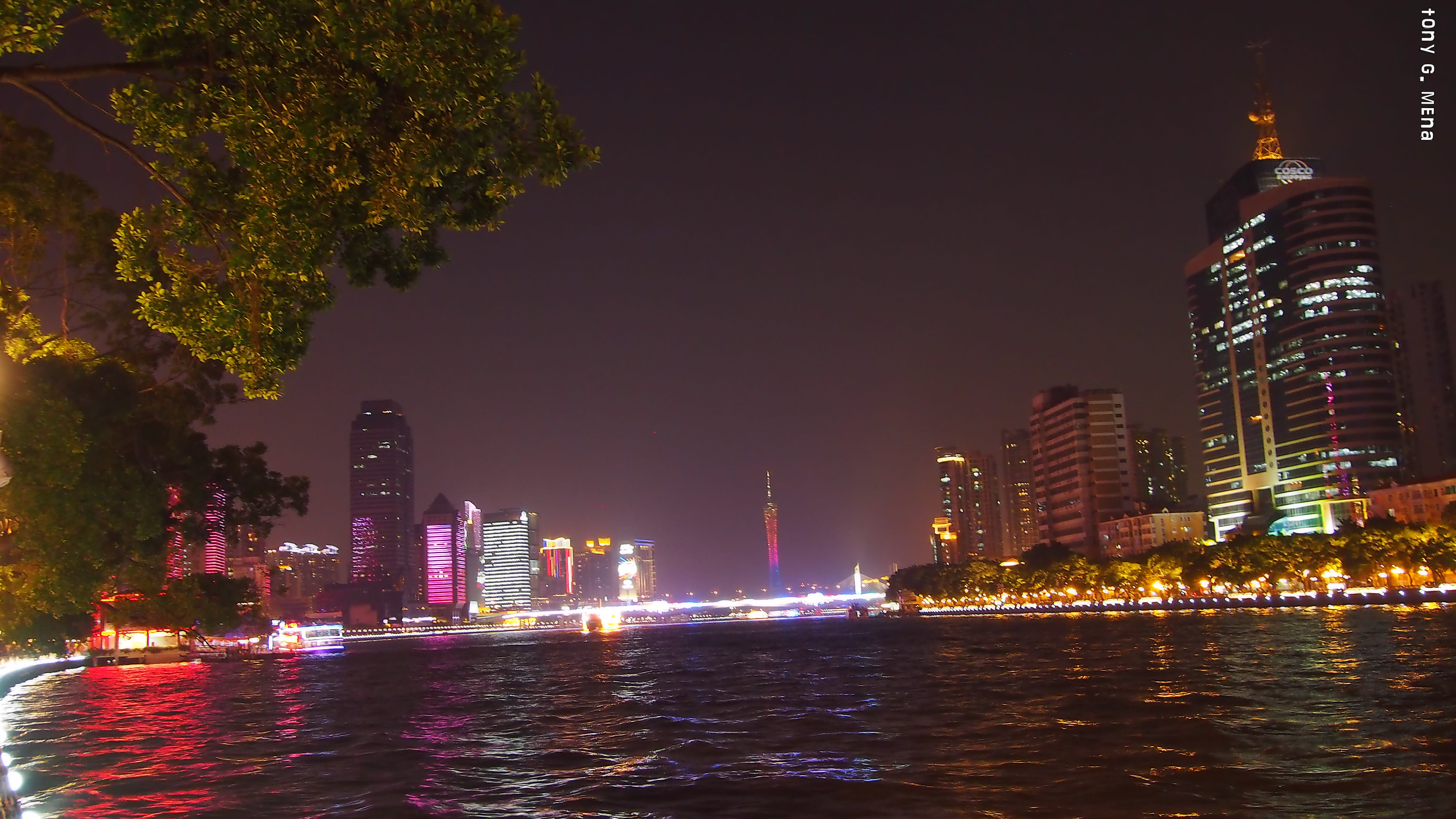 Riverwalk and Canton Tower in the back